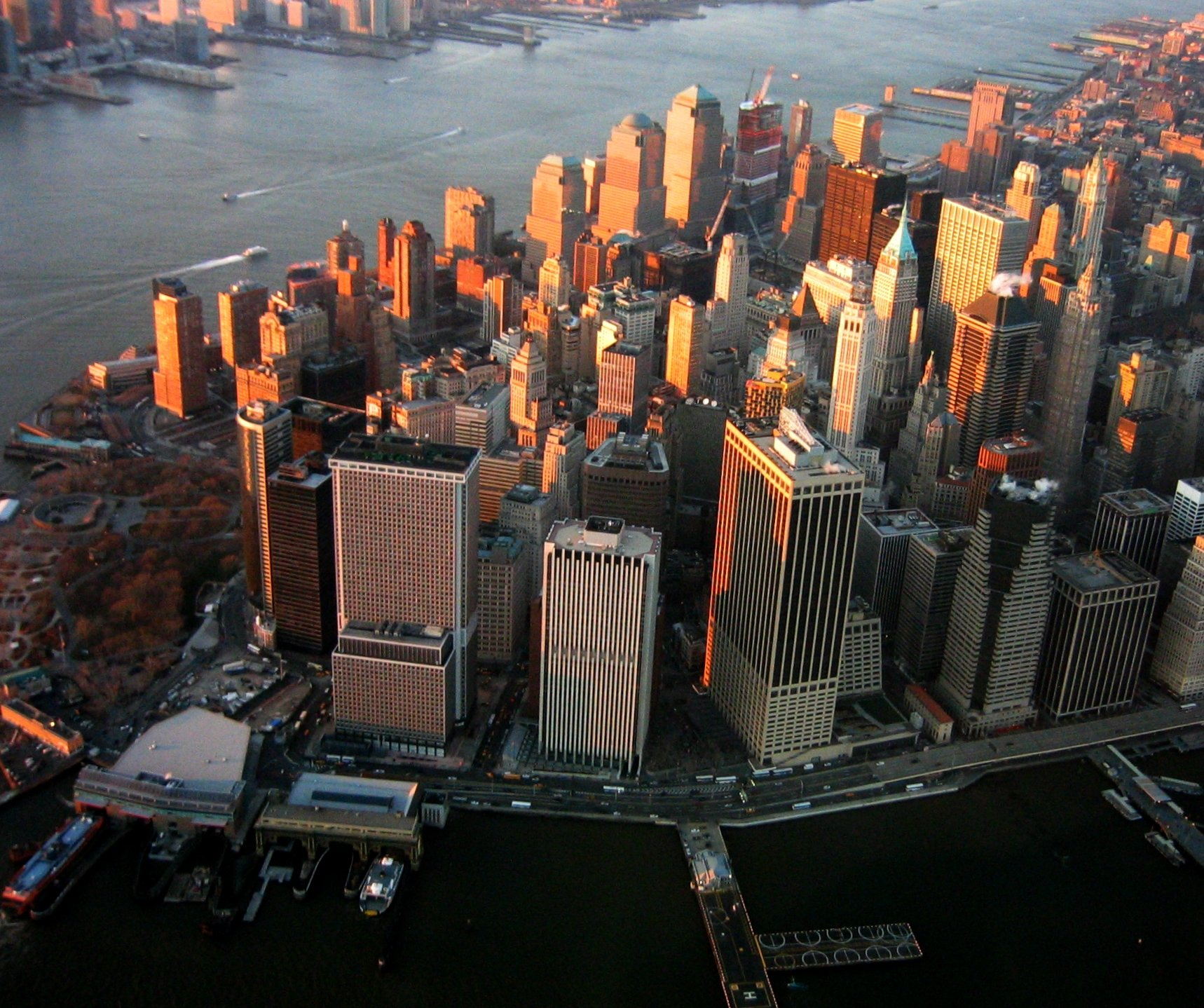 Manhattan's Financial District, from a helicopter.